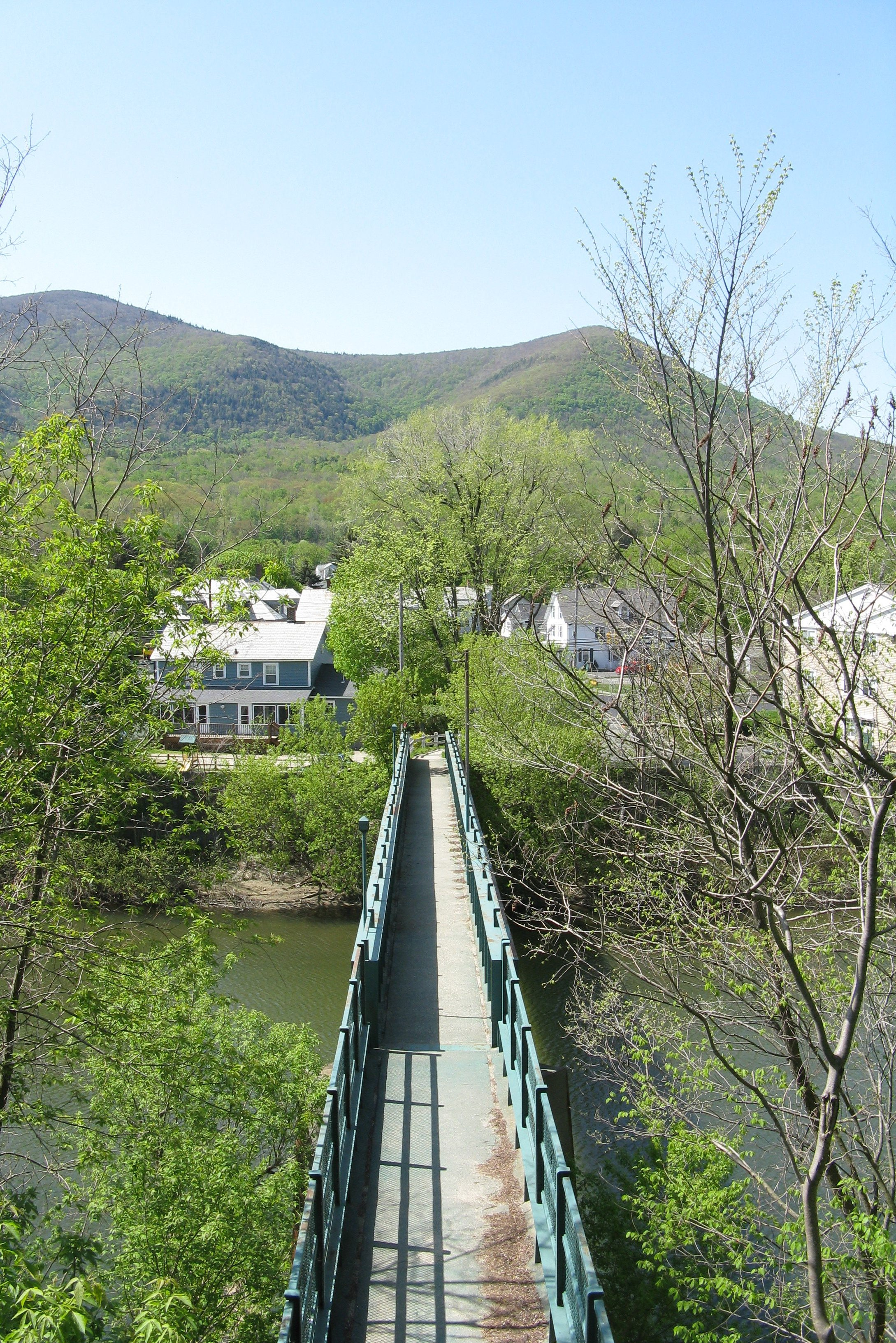 Appalachian Trail footbridge, North Adams Massachusetts